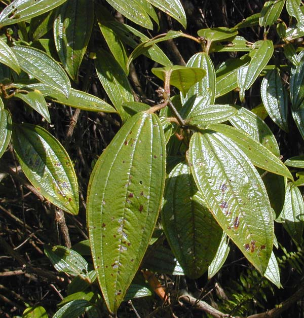 Leaves of a melastome (Family Melastomataceae); photographed in on the Island of Hawai'i by Eric Guinther (Marshman).